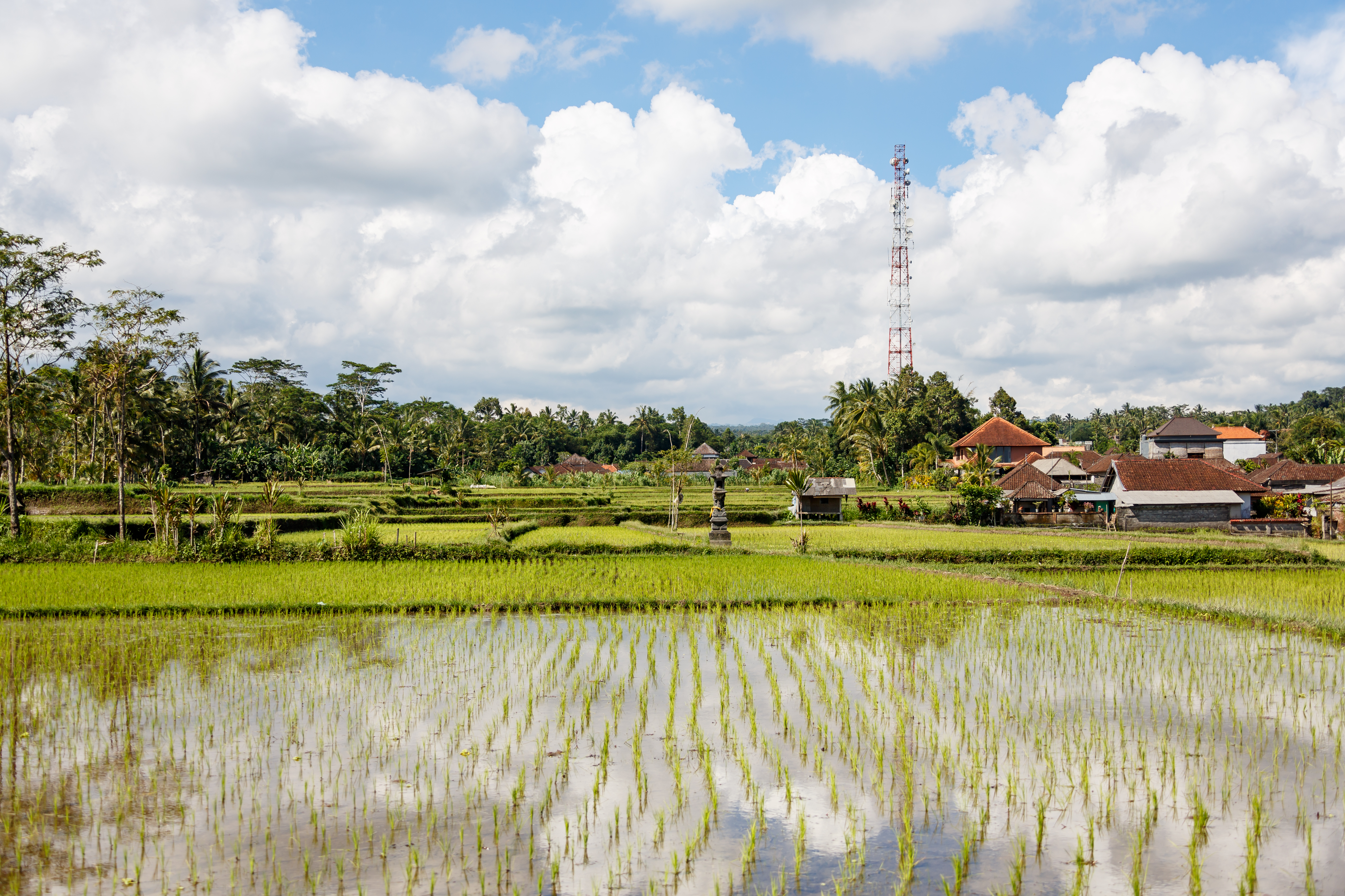 Gianyar Regency, Bali, Indonesia: A rice paddy in Gianyar Regency